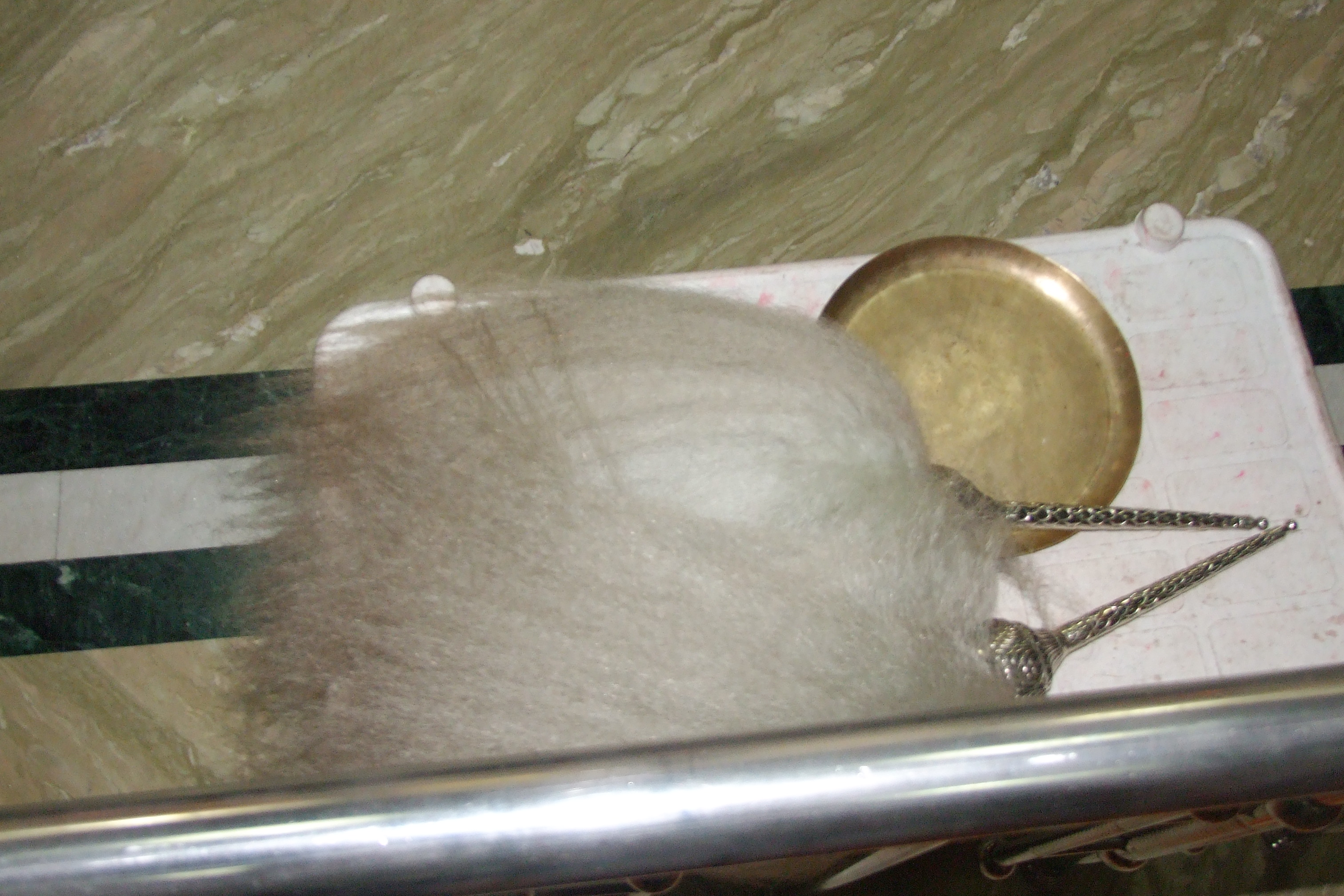 Brushes used in Hindu worship, taken in a Hindu temple in Siliguri, West Bengal. They are waved in front of the deity, similar to the Aarti tray.